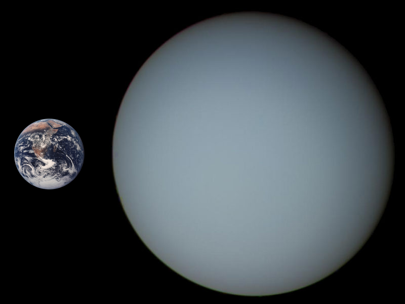 Diameter comparison of Uranus and Earth. Approximate scale is 90 km/px. This picture was made from Uranus2.jpg and the Earth from Earth Eastern Hemisphere.jpg.